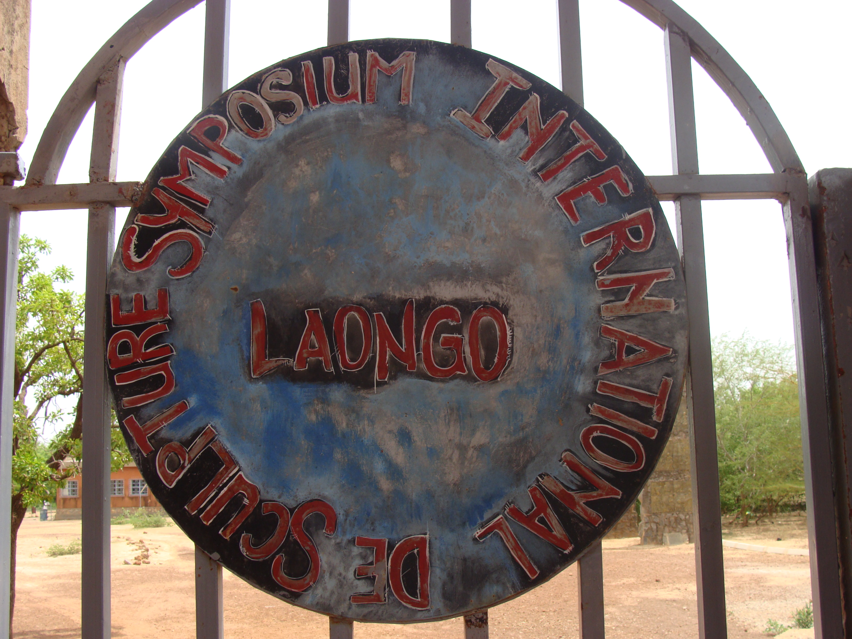 Nameplate at the entrance to the Symposium international de sculpture sur granit in Laongo, Burkina Faso